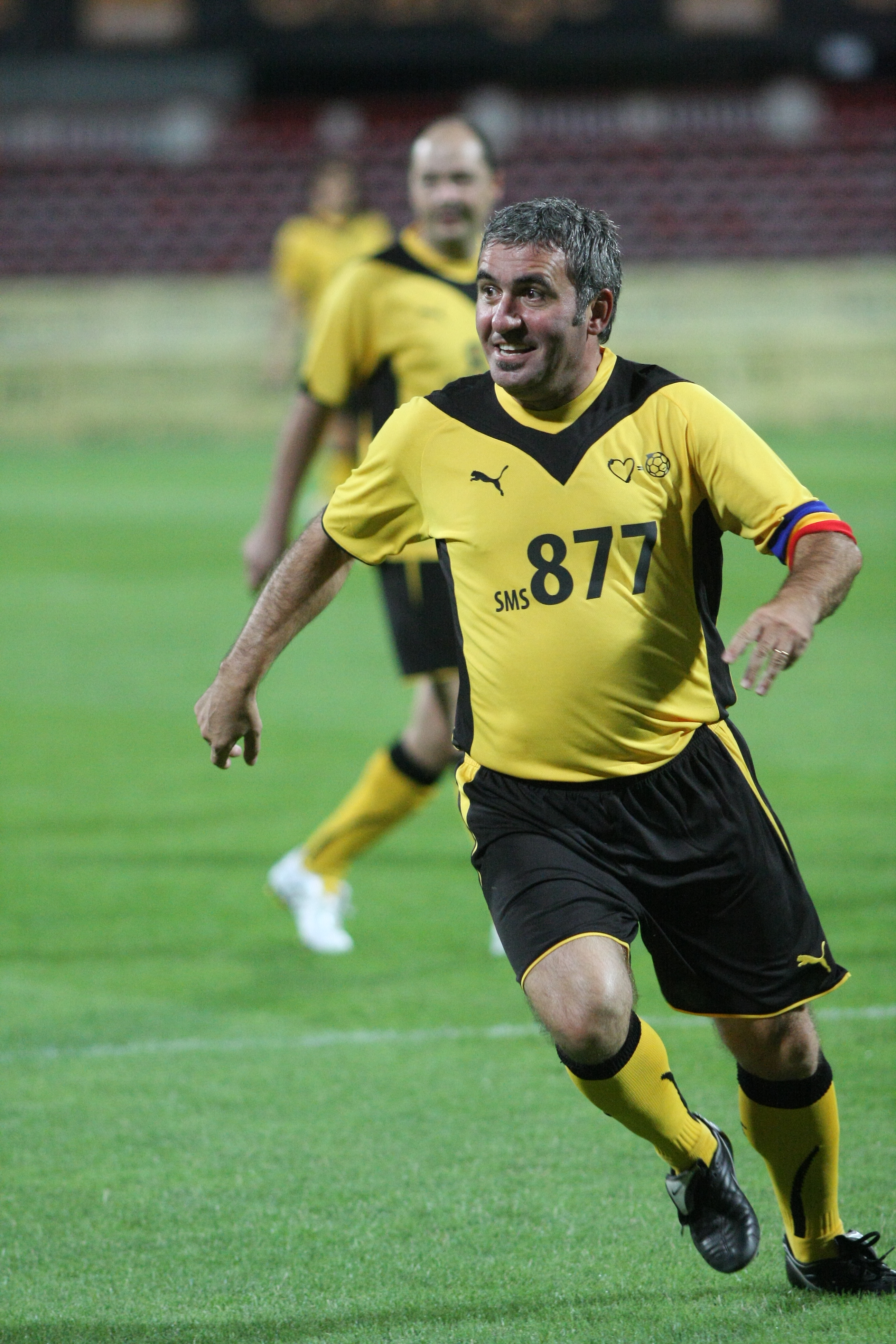 Gica Hagi